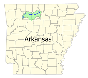 General location of Buffalo River and its watershed in northern Arkansas